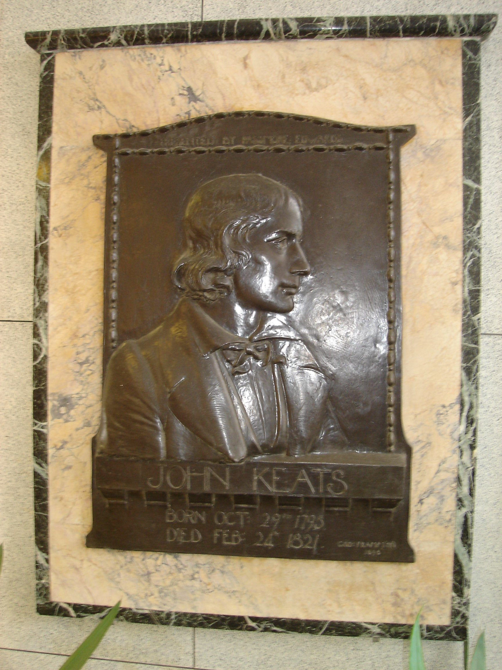 Picture of portrait plaque of John Keats by George Frampton on public display at Community House, 313, Fore Street, Edmonton. The plaque was originally housed in the Passmore Edwards public library in Edmonton